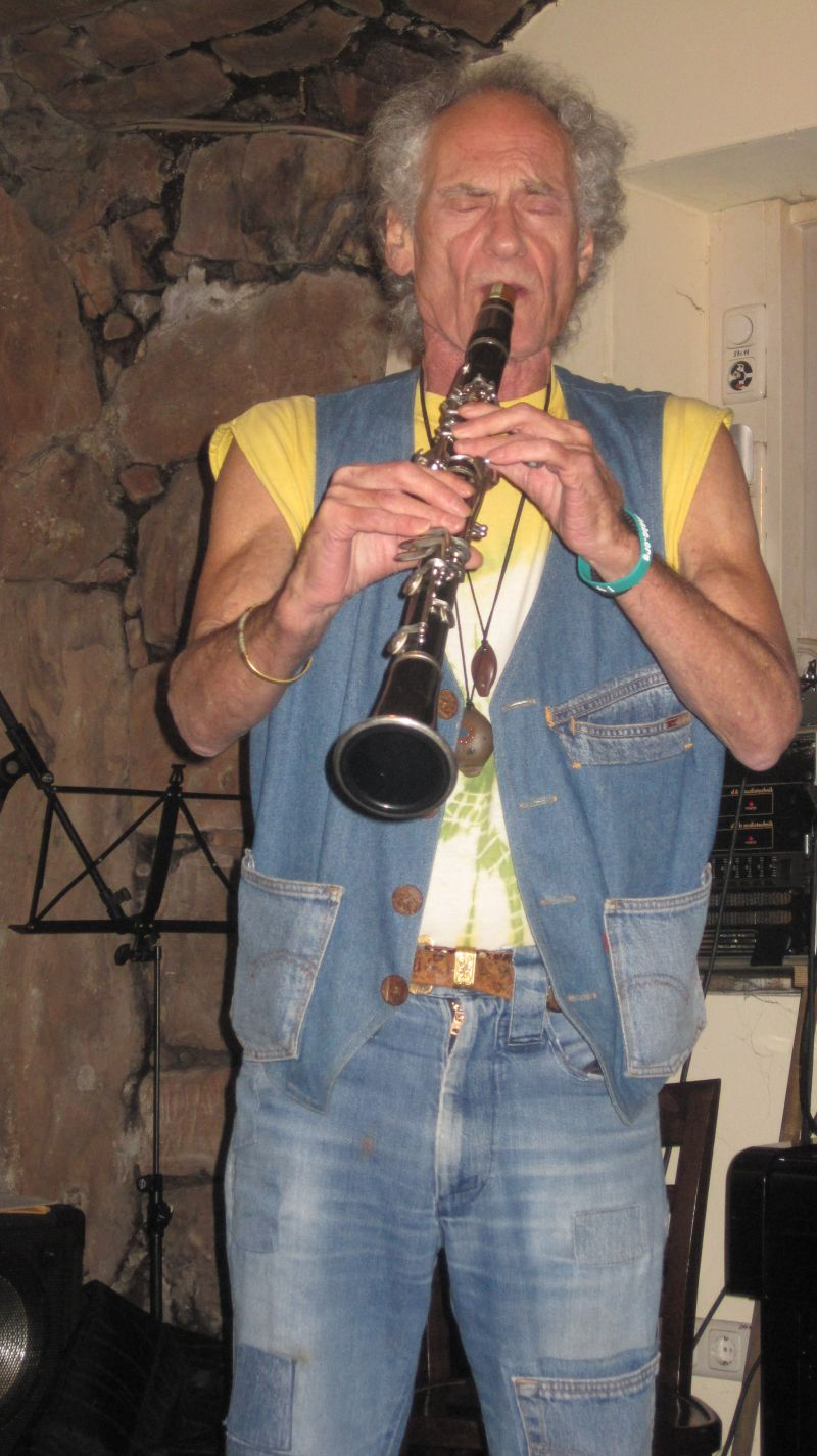 American jazz clarinetist Perry Robinson, Marburg 2011.